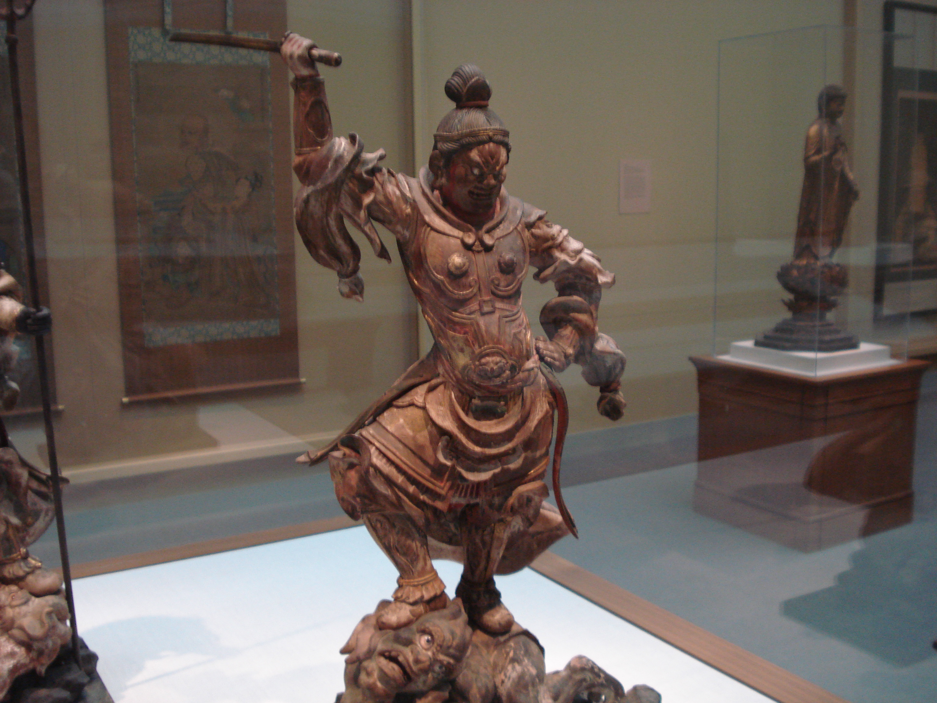 A Kamakura period Japanese wooden statue with polychrome, gold, and crystal. This statue depicts Jikoku-ten, Guardian of the East, one of four Buddhist guardians (shitenno) assigned to each of the four major cardinal directions.